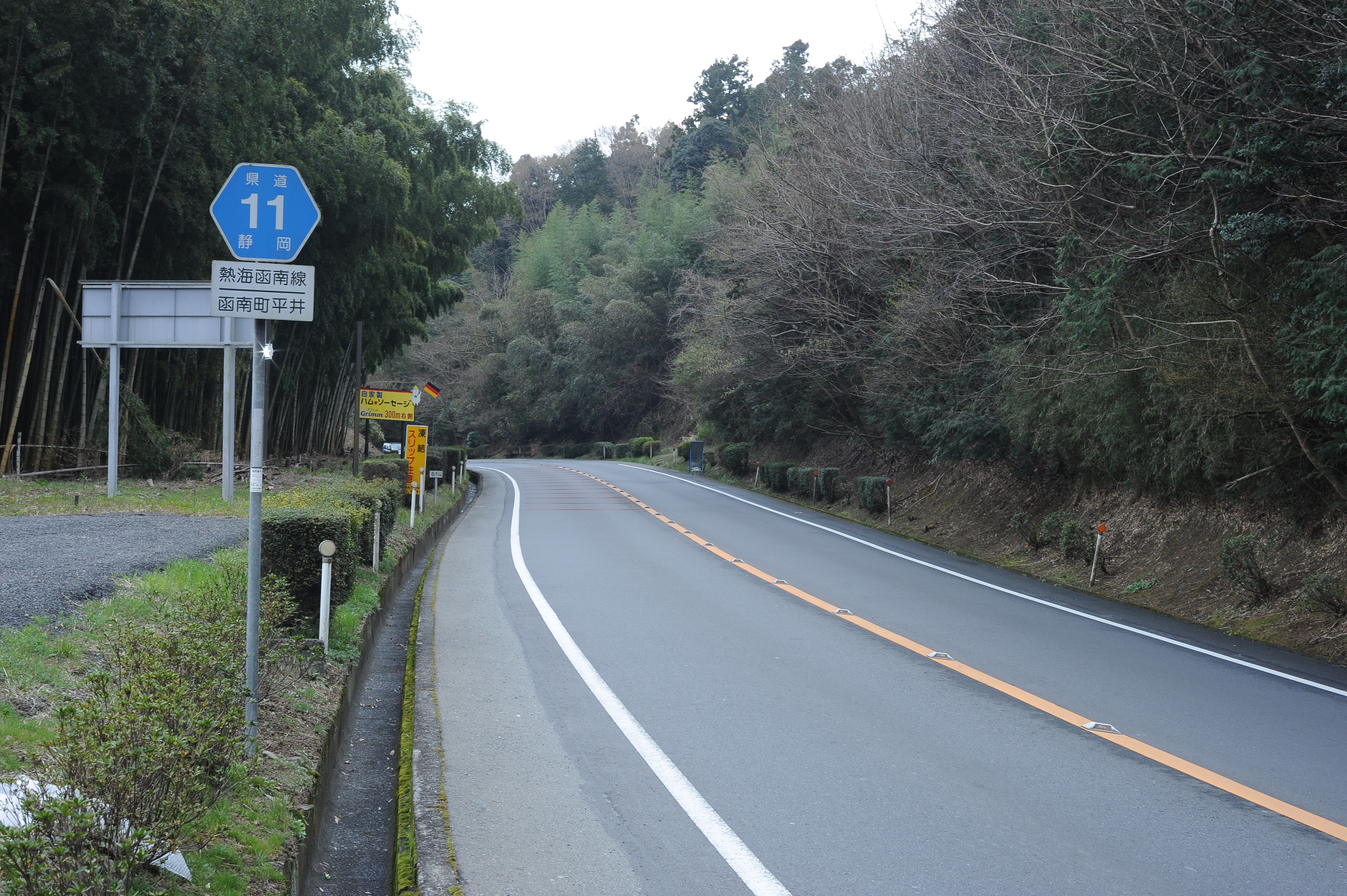 Shizuoka Prefectural Route 11, Kannami, Shizuoka